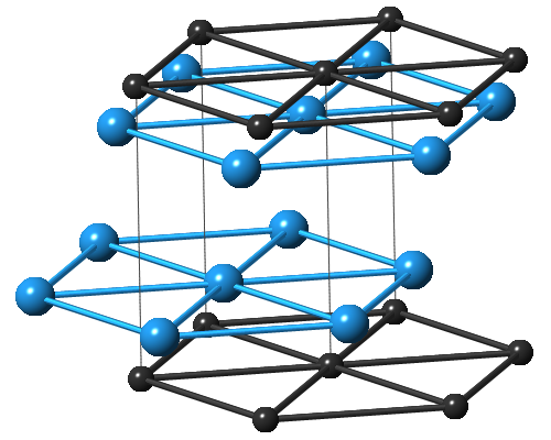 β-tantalum carbide with the unit cell, trigonal, P3m1, 1 molecule in the cell. According to "The crystal structures of V2C and Ta2C" by Acta Crystallographica.